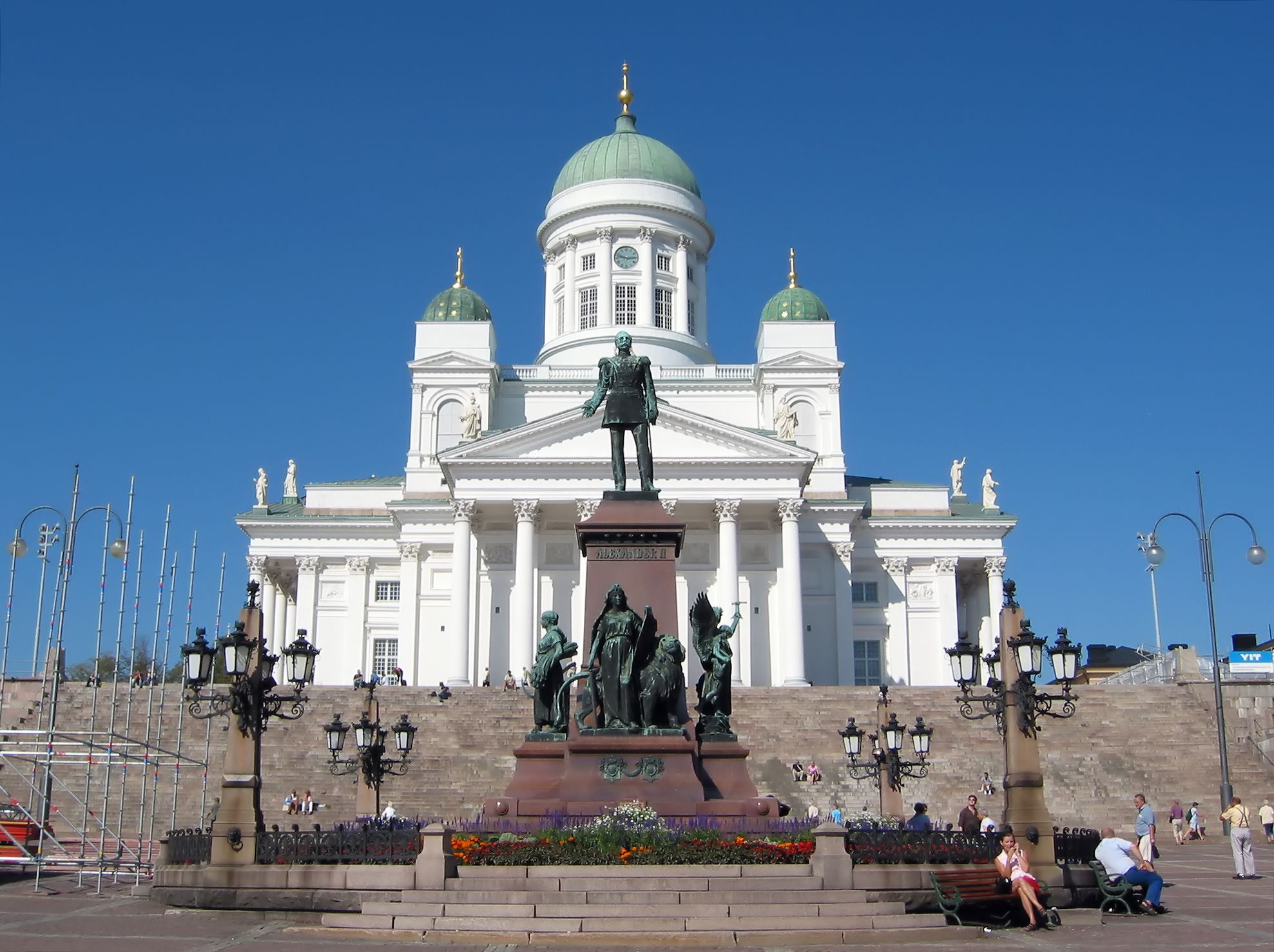 Helsinki Lutheran Cathedral with the statue of Emperor Alexander II of Russia in the front.